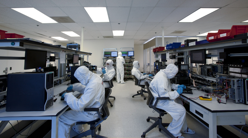 SalvageData Lab and Technicians